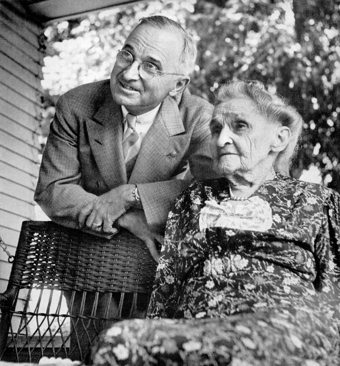 Photograph of Harry S. Truman with his mother, Martha Ellen Young Truman, on the front porch of her house in Grandview, Missouri Photograph leads the feature story, "Truman in Missouri" Caption reads as follows: Right after the convention Senator Truman went to call on his 91-year-old mother, whom he calls "Mamma" or "Boss". She still lives in Grandview, Mo. The 1944 Democratic Presidential Convention took place July 19–21, 1944; this photograph is likely to have been taken in July 1944.